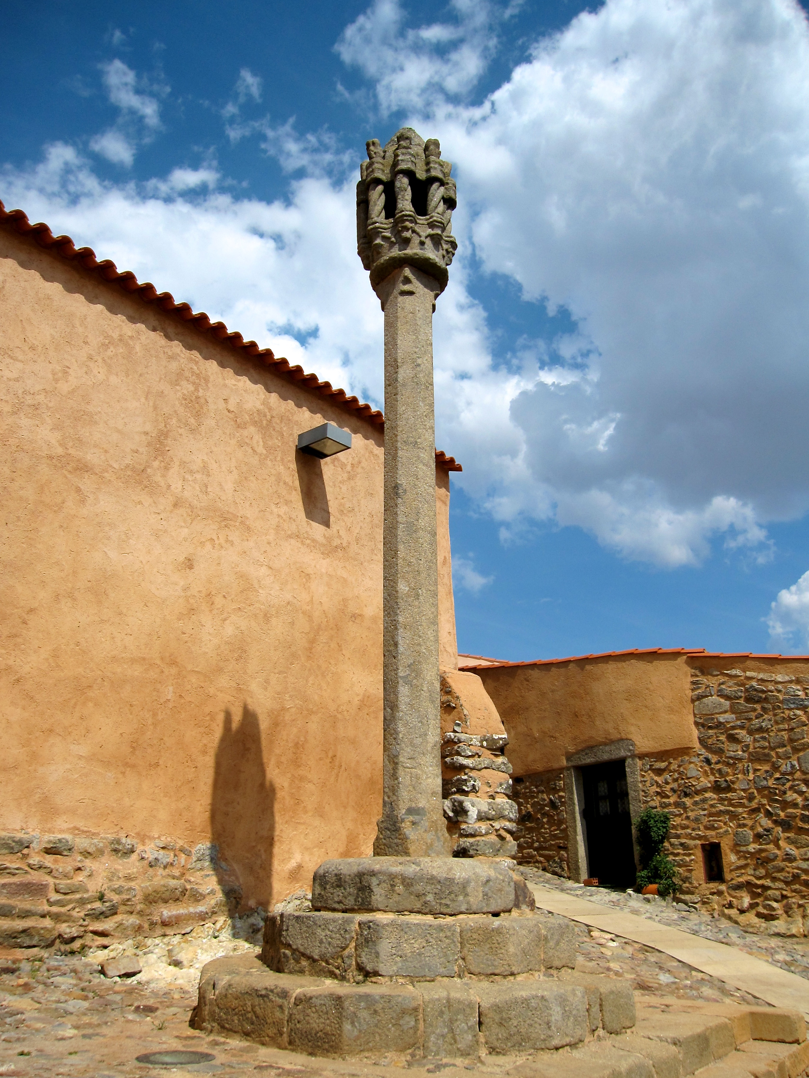 This file was uploaded for Wiki Loves Monuments in Portugal with the unique identifier 71118.